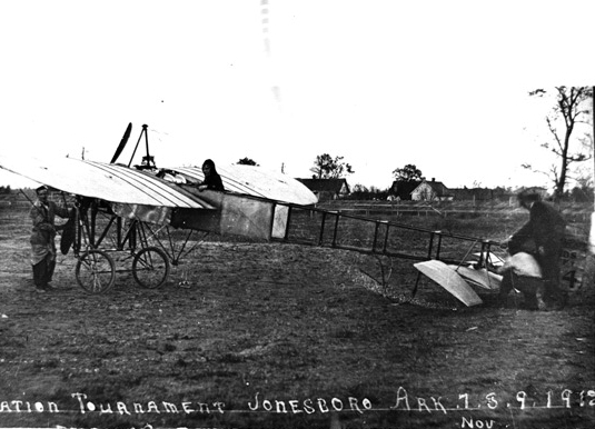 Catalog #: BIOC00161 Last Name: Champion First Name: Frank Notes: Bleriot aircraft Bleriot aircraft Repository: San Diego Air and Space Museum Archive